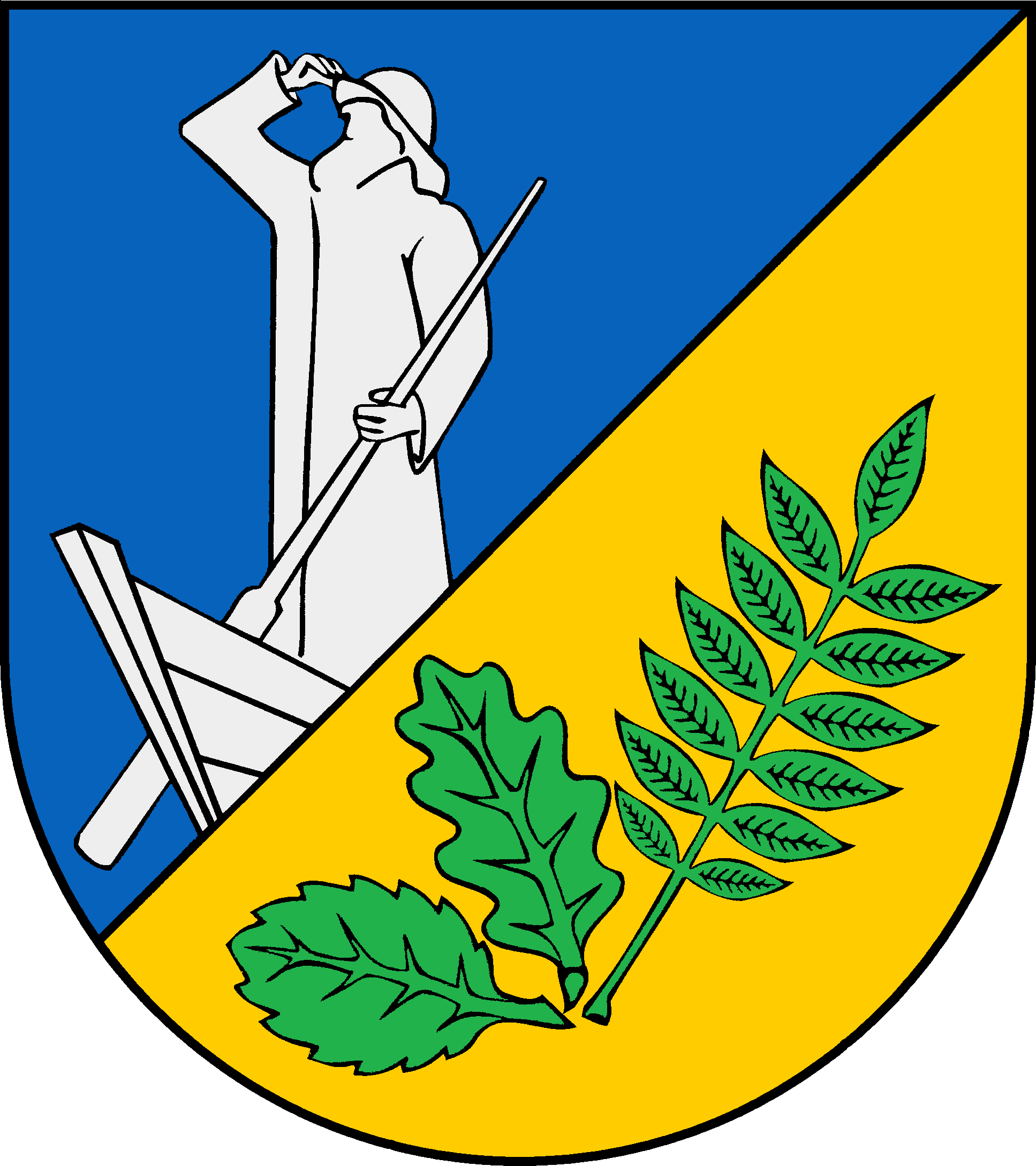 Coat of arms of the municipality Kellenhusen (Ostsee) in Schleswig-Holstein, Germany.